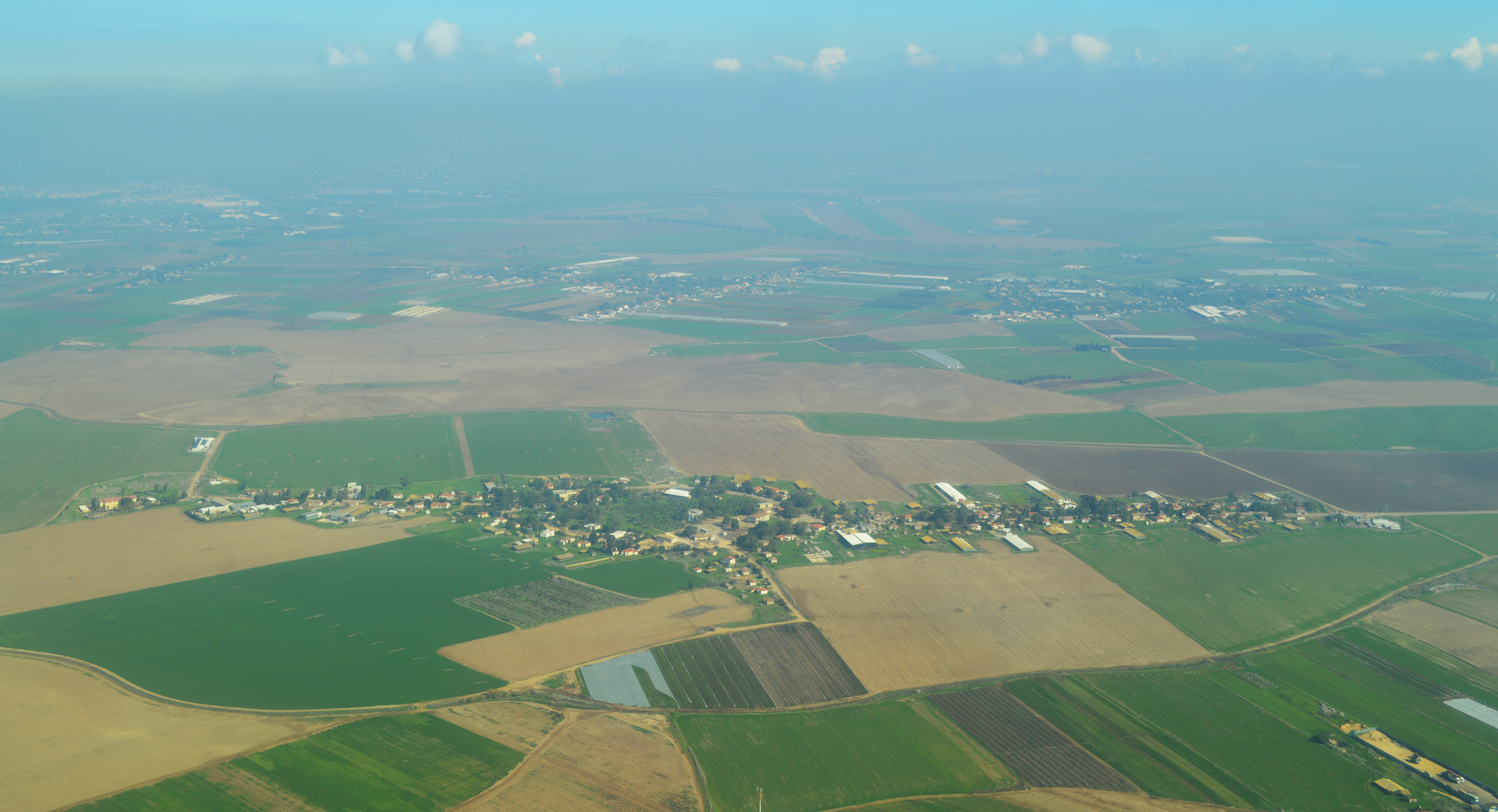 Komemiyut Aerial View. Behind on the right is Nir Banim and behind in the center is Zrachya. On the left is Moshav Shafir, behind it is Avigdor and further behind are teh white buildings of Kiryat Malachi. The picture was taken from south west.